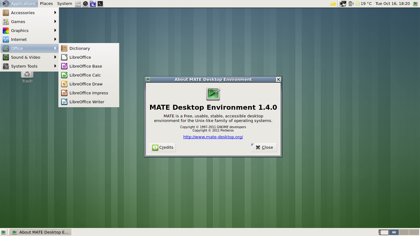 A Screenshot of the MATE Desktop Environment on Debian